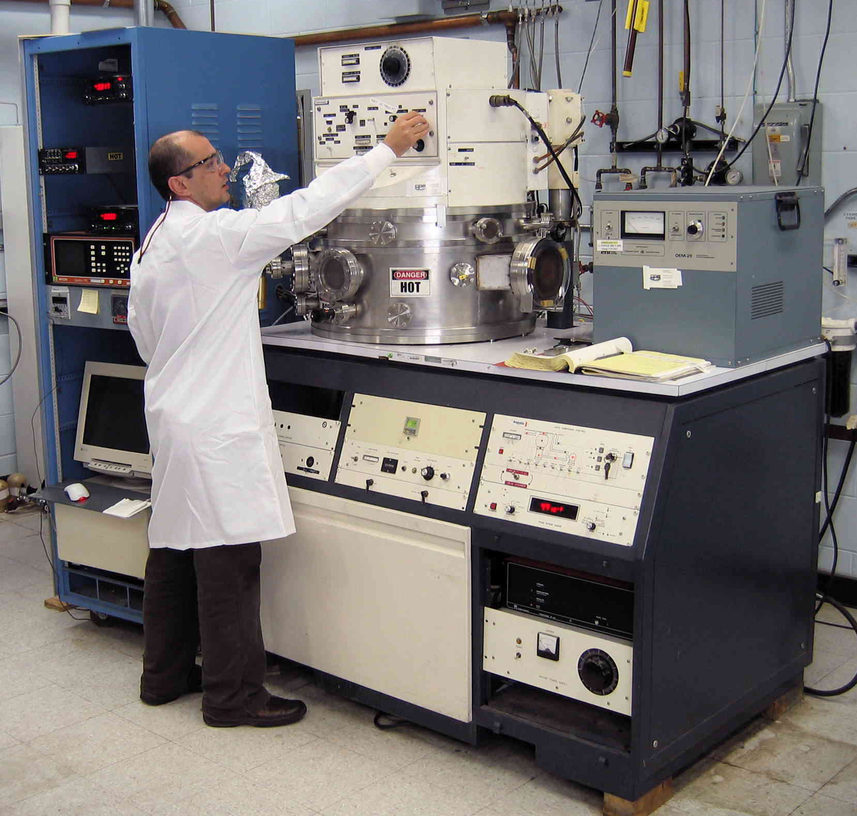 This commercial system was designed for the semiconductor field and contains three 8"-diameter targets that can be run individually or simultaneously to deposit metallic or dielectric film son substrates ranging up to 24" in diameter. See the entire Tribology Laboratory photo tour . View more about Argonne's transportation research at . Photo courtesy of Argonne National Laboratory .